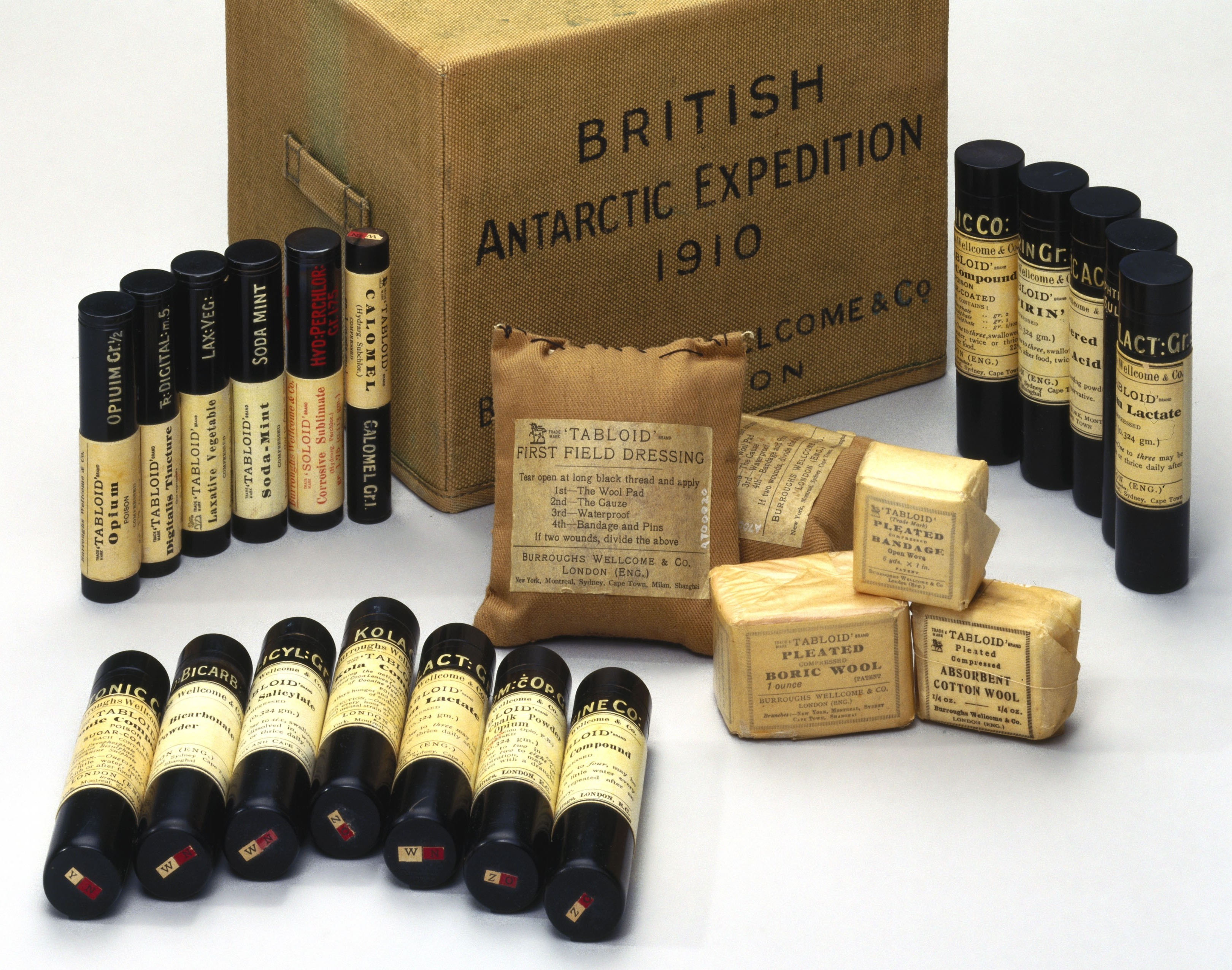 Tabloid medicine chest for Robert Falcon Scott's last expedition to the Antarctic, 1910.